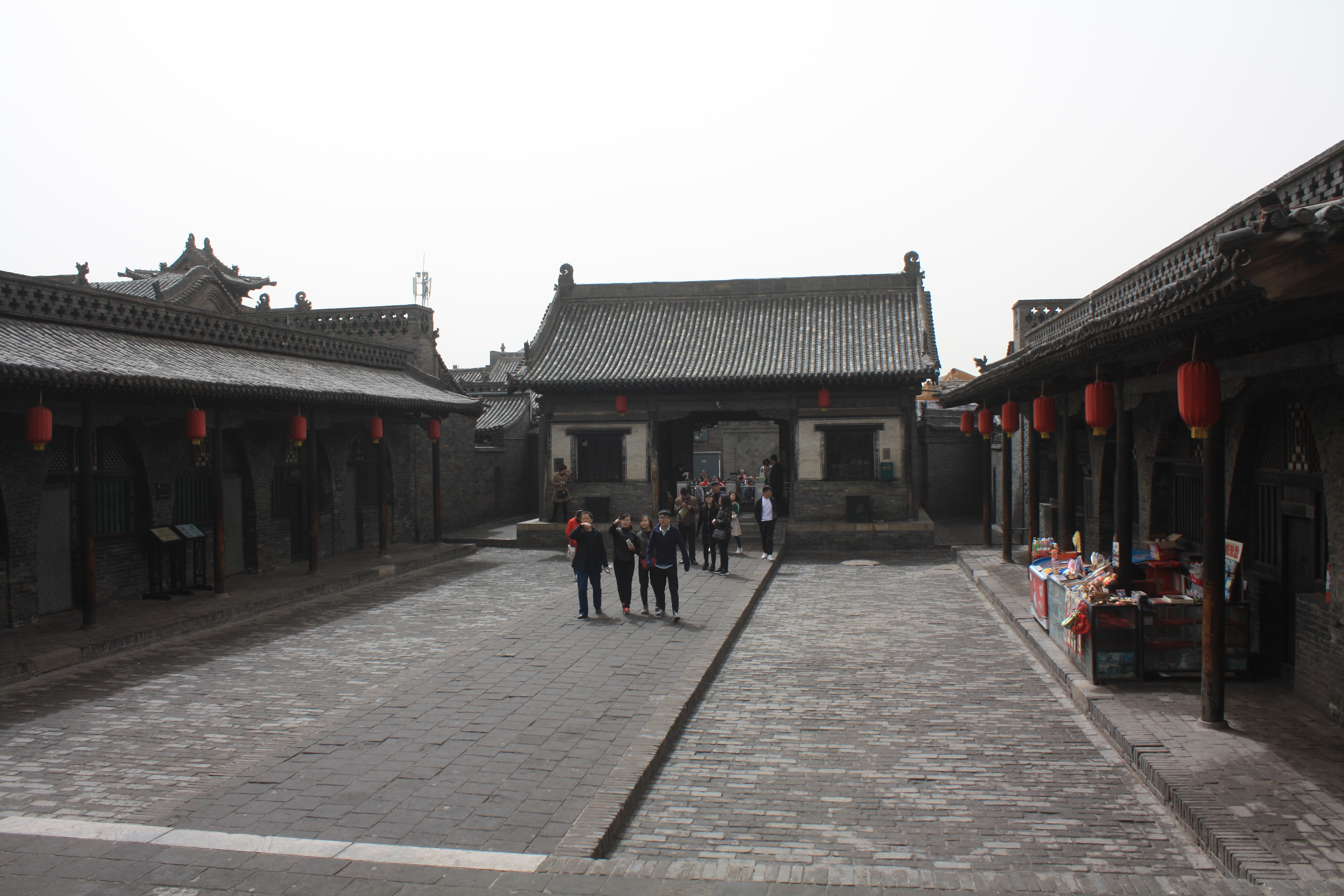 The courtyard of the Pingyao yamen